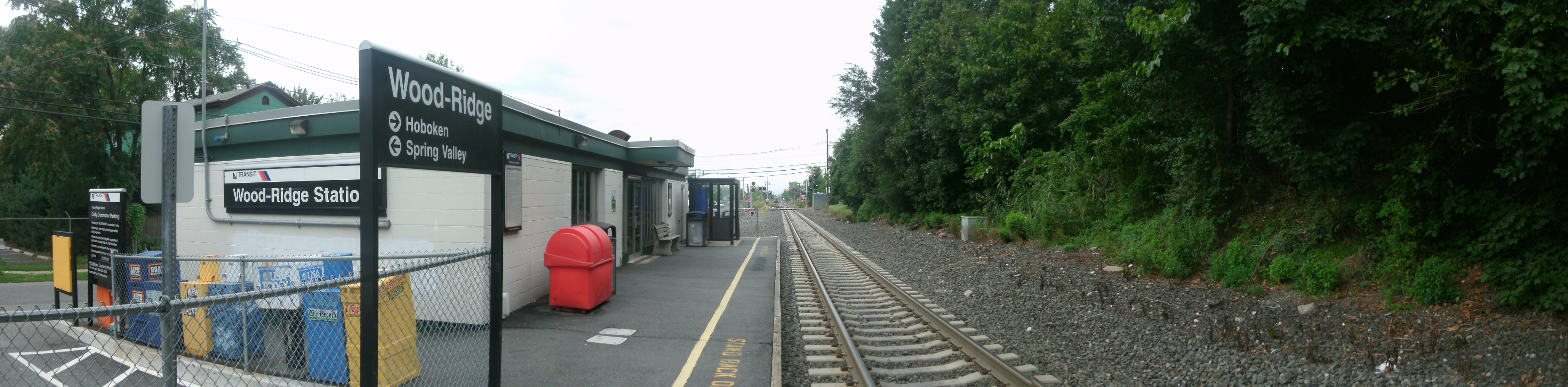 A panorama of the New Jersey Transit (former Erie-Lackawanna Railroad) station at Wood-Ridge, New Jersey facing southbound towards Carlstadt.